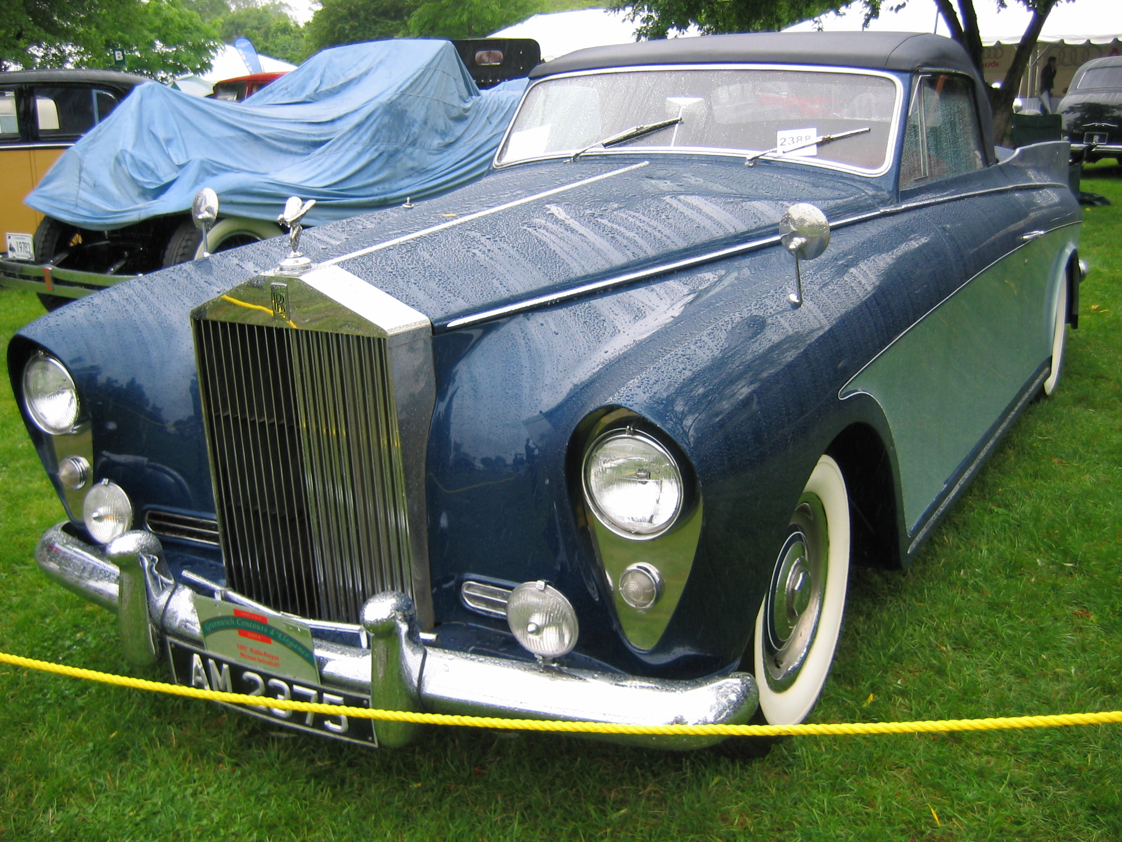 1957 Rolls-Royce Silver Cloud Drophead Coupé (#SED179) at the 2004 Greenwich Concours d'Élegance. It has a one-of-a-kind two-seater drophead coupé coachwork by Freestone & Webb (design No. 3243C), made as the coachbuilder's Earls Court (automobile show) exhibit. The soft top folds automatically into a compartment behind the passenger seats which is then hidden by a flush metal cover.